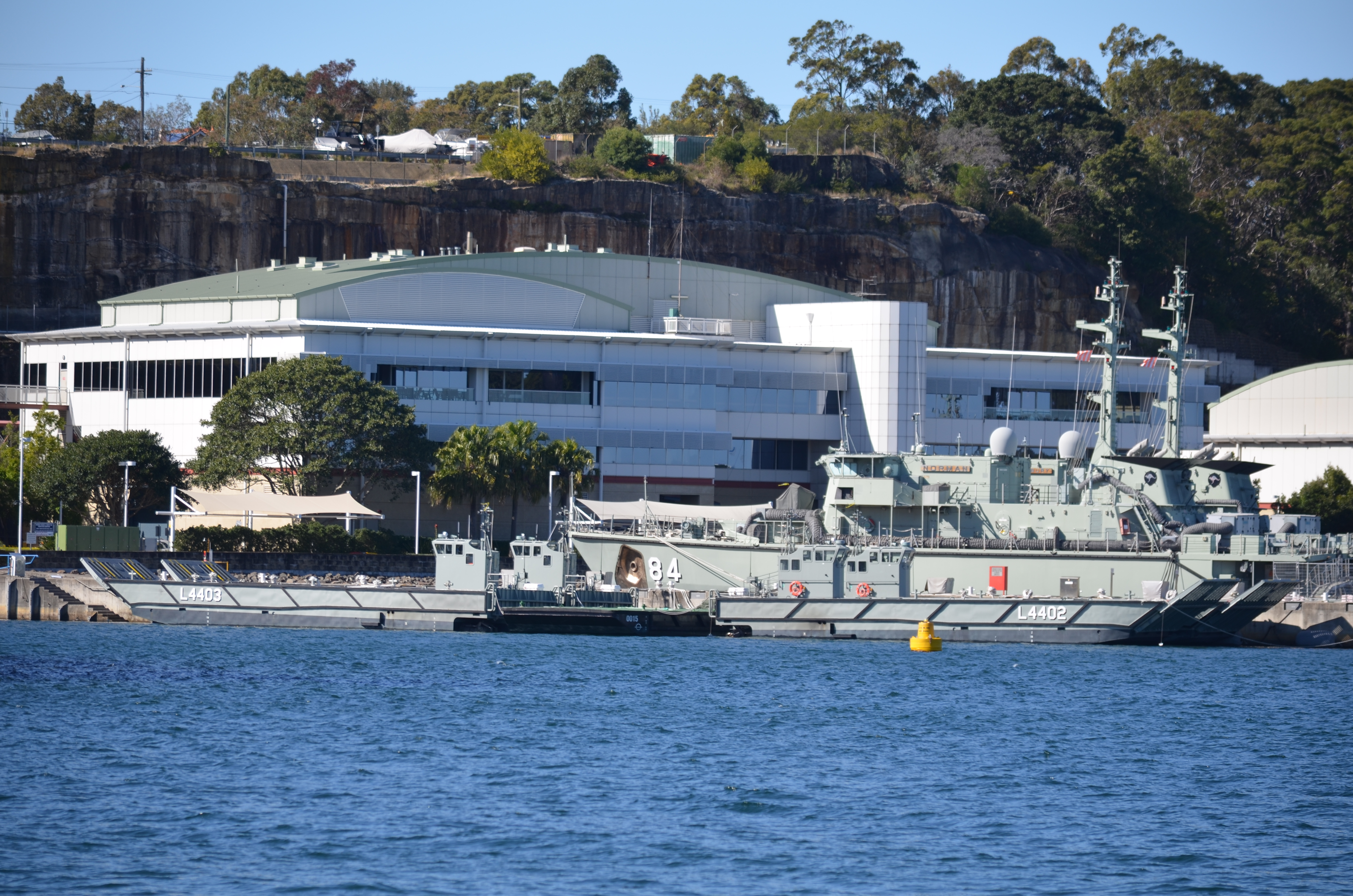 Four LCM-1E landing craft (L4003, L4002, and two unidentified), and two Huon class minehunters, moored at HMAS Waterhen